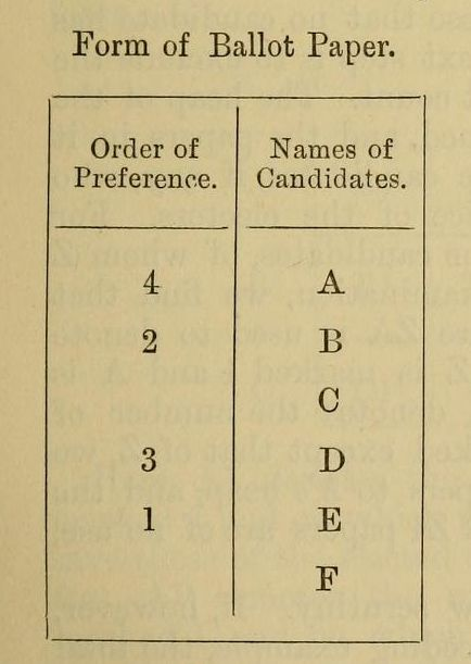 An example of a ranked ballot from the paper that introduces Nanson's method